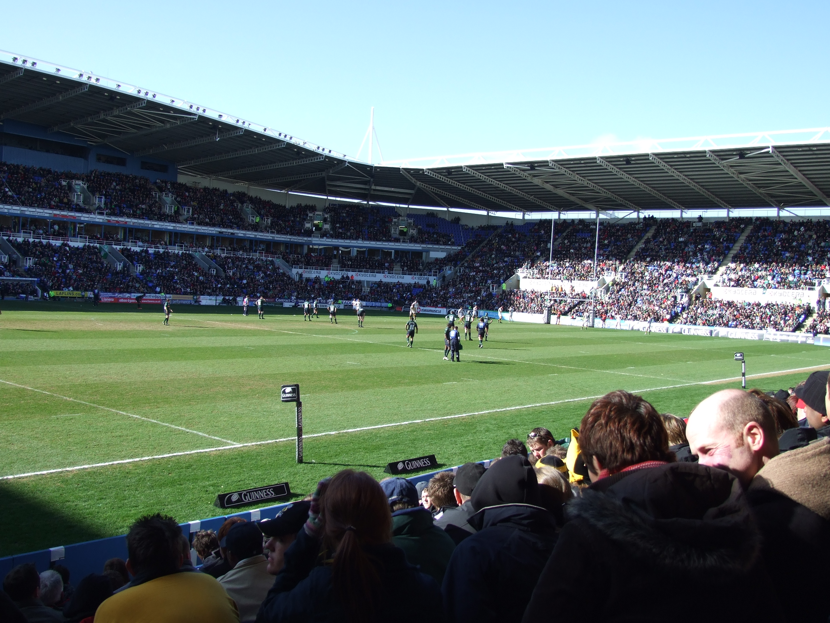 London Irish at the Madejski Stadium against Wasps